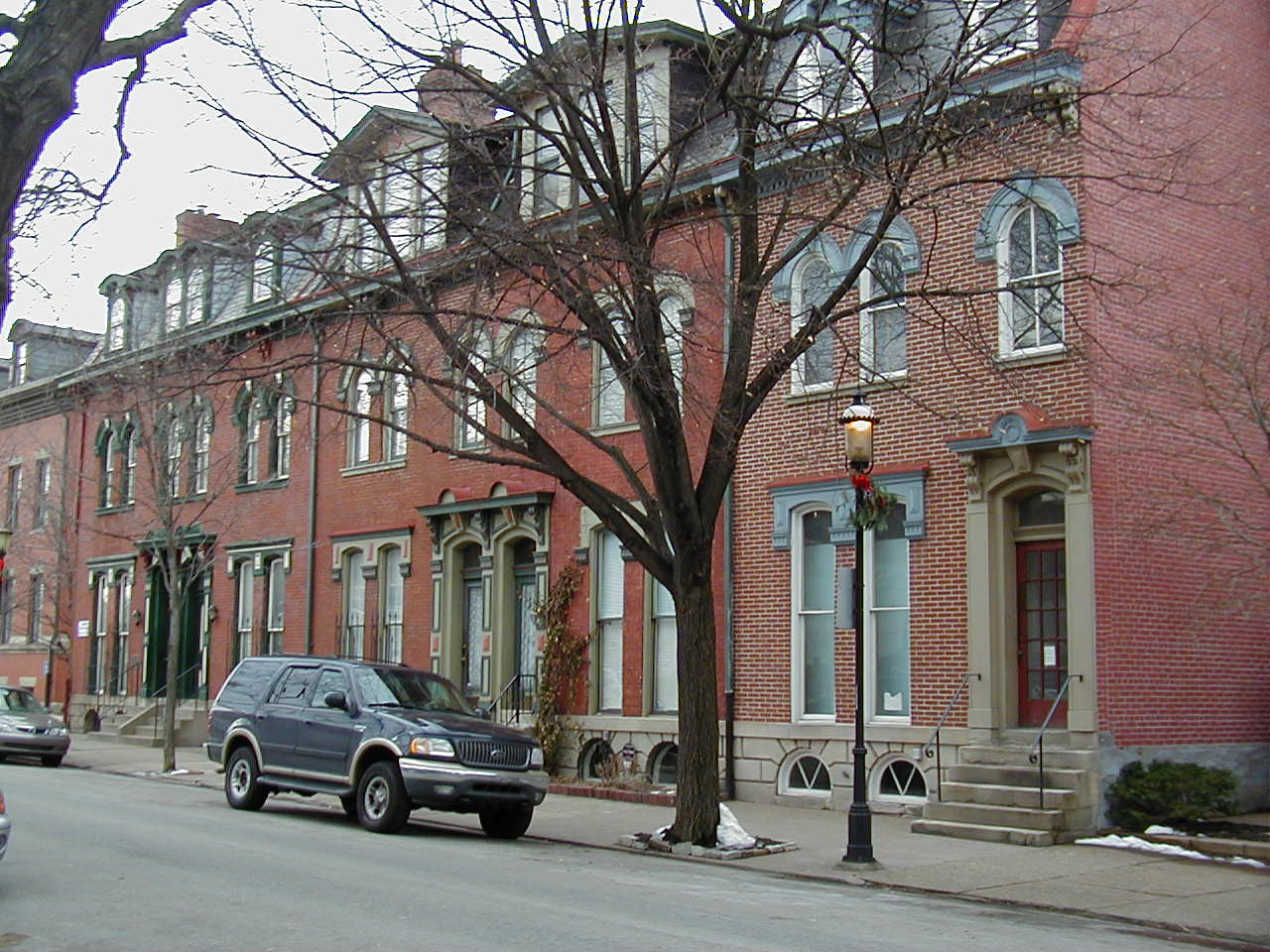 Historic houses in Allegheny West neighborhood of Pittsburgh